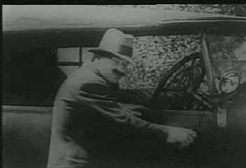 A still from A Free Ride (1915)